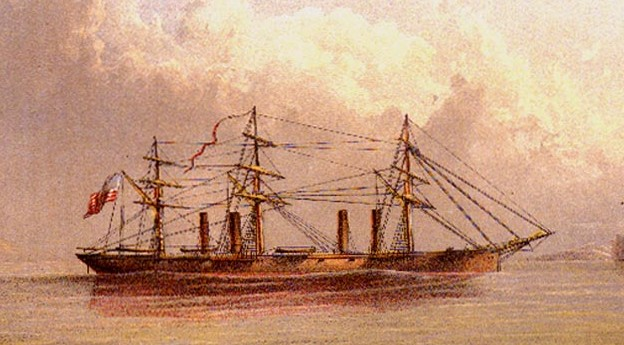 "Ammonoosuc and Neshaminy Class" - Colored lithograph, after a drawing by Captain Melancthon B. Woolsey, USN, published by the Major & Knapp Eng. Mfg. & Lith. Co., 71 Broadway, New York, circa the later 1860s. It depicts the fast cruisers USS Ammonoosuc (1868-1883) and Neshaminy (1865-1874). The same print has also been used to depict the never-launched USS Connecticut, ex-Pompanoosuc. The original print's mount bears the notation: "From Boynton's History of the U.S. Navy".